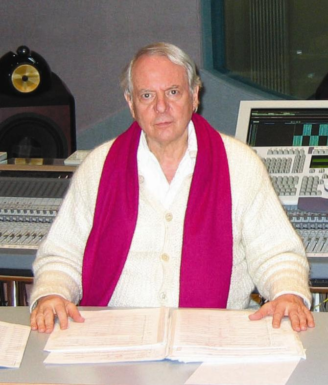 Karlheinz Stockhausen in Sound Studio N, Cologne, on 7 March 2004 during the mix-down of Engel-Prozessionen (Angel Processions) from his opera Sonntag aus Licht.